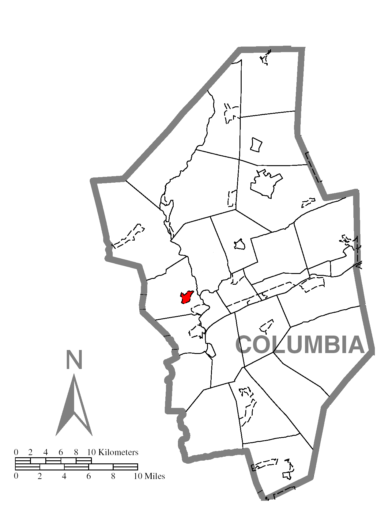 A map of Columbia County showing Buckhorn, Pennsylvania (alternate) highlighted on the map.